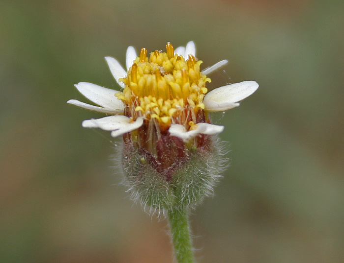 Coat buttons Tridax procumbens in Hyderabad , India.